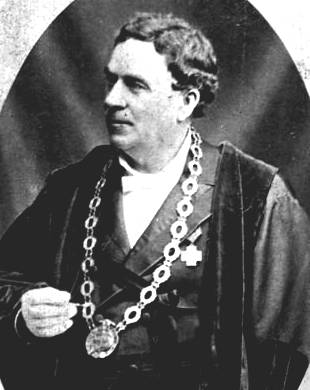 S. Bingham Mayor of Ottawa, 1897-98 Bingham, Samuel REPRODUCTION:C-002052 (copy negative number)